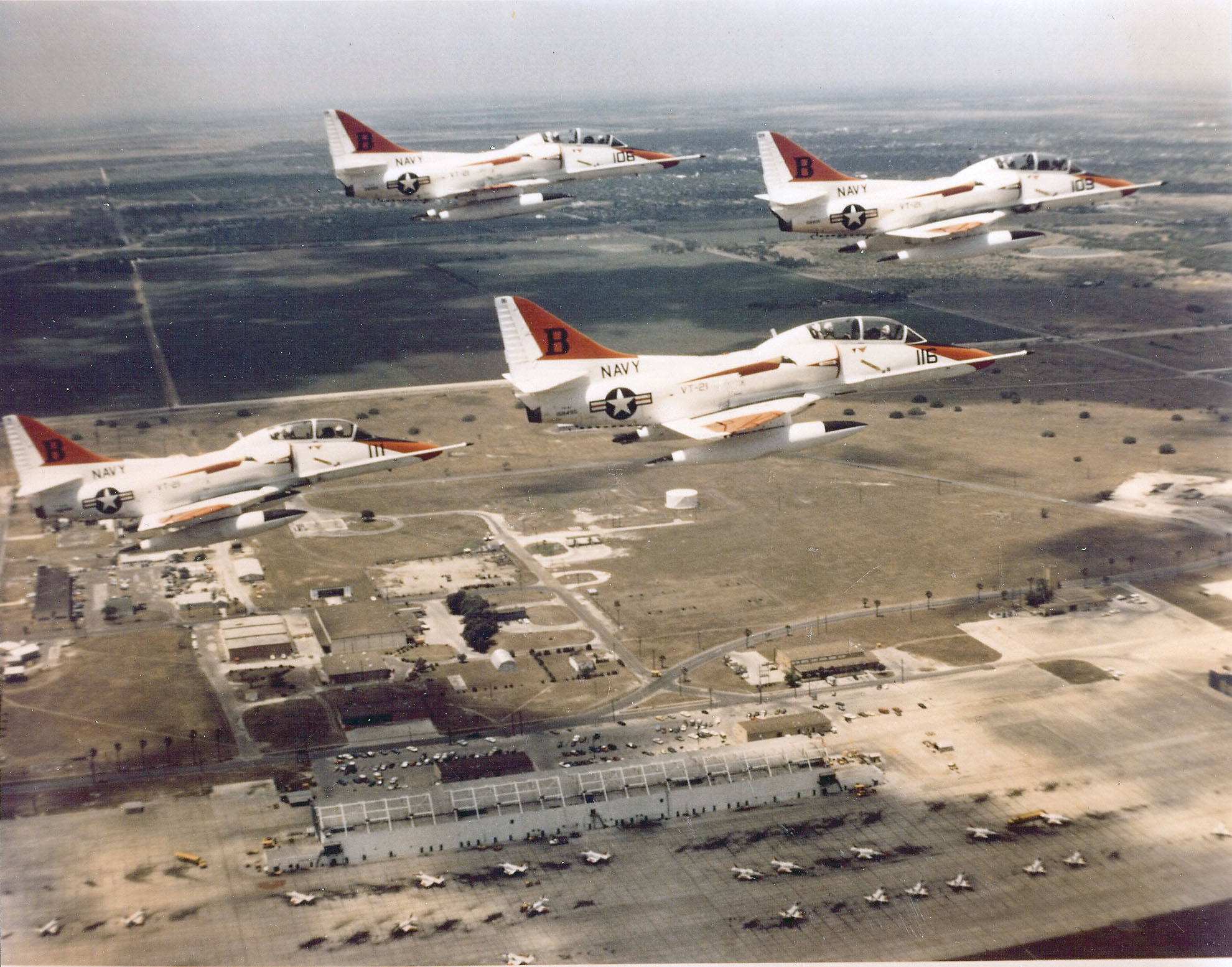 Four U.S. Navy Douglas TA-4J Skyhawks of Training Squadron VT-21 Redhawks flying in formation over an unidentified airfield. VT-21 was based at Naval Air Station Kingsville, Texas (USA).